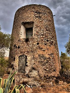 "Predial" Defense Tower of Ca N'Espatleta, Eivissa, Spain